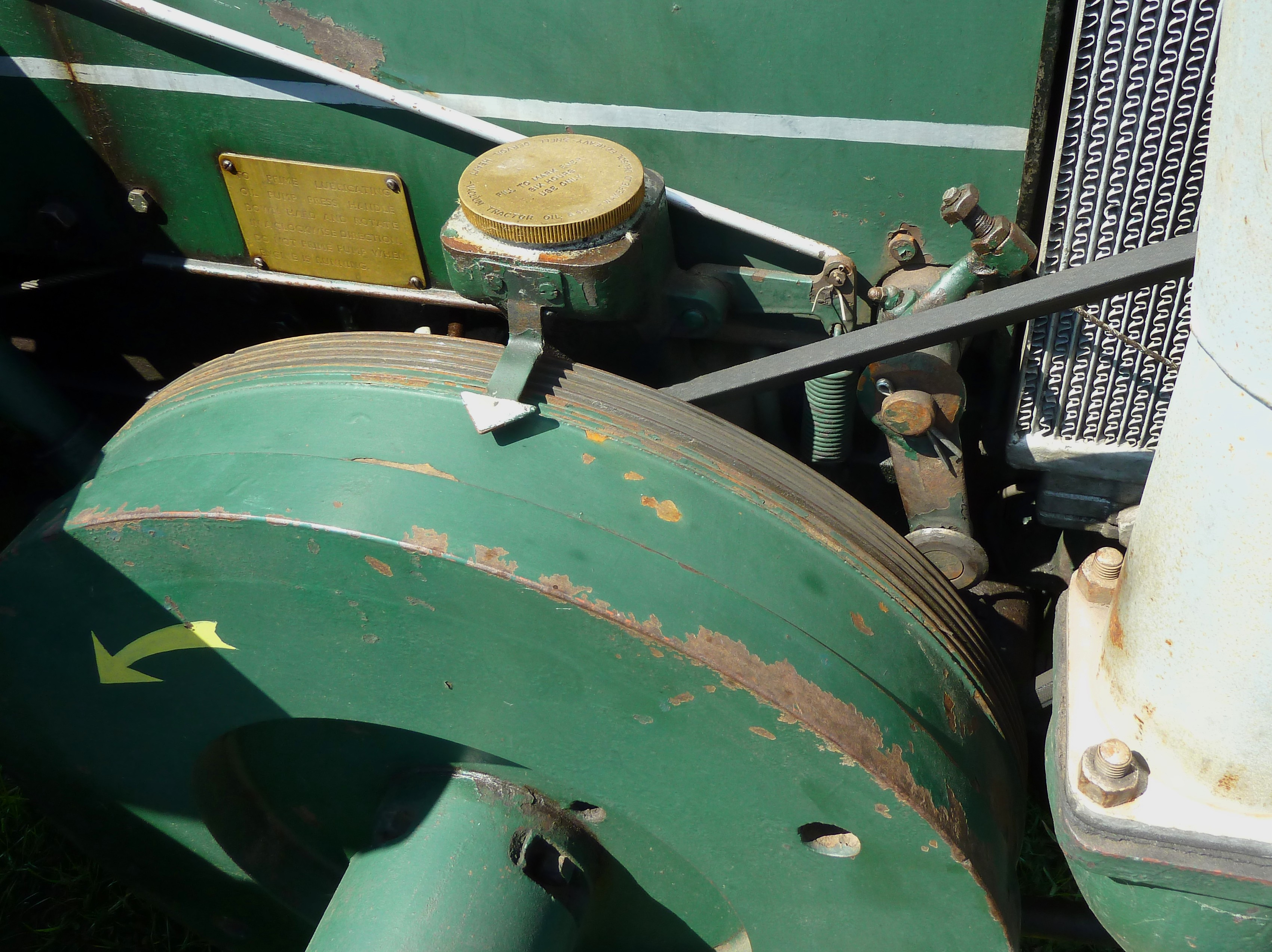 Field-Marshall diesel tractor Flywheel and decompressor lever. When starting, the wheel of the decompressor lever (top right) is placed in the spiral groove of the flywheel. When turning over the engine, this allows a few revolutions with the decompressor open for easy turning, then engages full compression and the engine should fire. Cophill Farm vintage rally, near Chepstow, 2012.